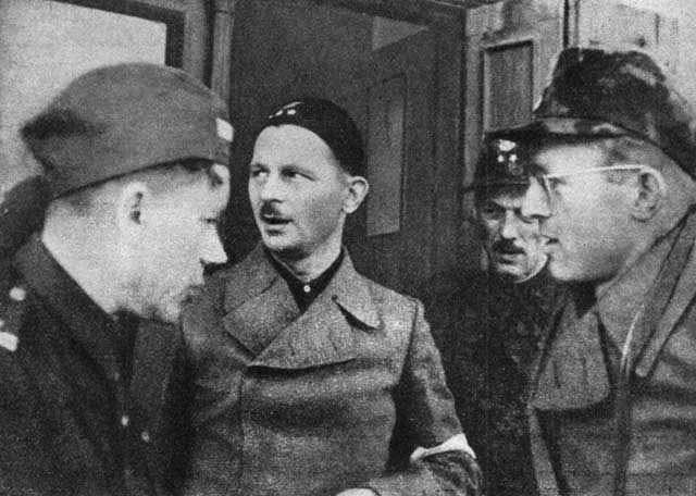 Warsaw Uprising: Jan Mazurkiewicz "Radosław" with his officers, from the left: "Radosław", Wacław Chojna "Horodyński", Dominik Horodyński "Wileński""Karol" and Stanisław Wierzyński "Klara"